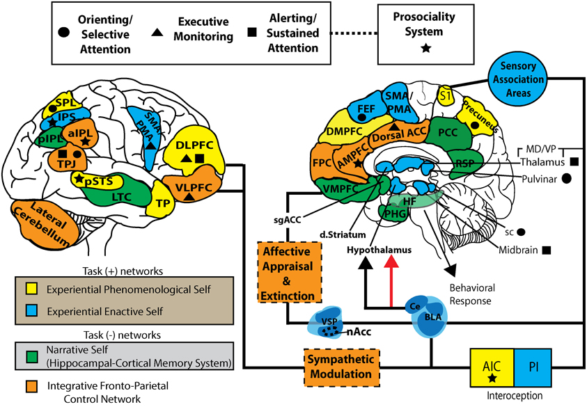 Self-networks and neurocognitive systems supporting S-ART. This working model represents a parcellation of task positive (self-specifying: EPS and EES), task negative (NS), and integrative fronto-parietal control networks. It also represents the individual components of the attentional systems and prosociality network purported to be modulated by mindfulness. The substrates for six component mechanisms of mindfulness within a framework of S-ART are also represented. EPS, experiential phenomenological self; EES, experiential enactive self; NS, narrative self; FPCN, fronto-parietal control network; FEF, frontal eye fields; DMPFC, dorsal-medial prefrontal cortex; AMPFC, anterior medial prefrontal cortex; VMPFC, ventromedial prefrontal cortex; PHG, parahippocampal gyrus; HF, hippocampal formation; RSP, retrosplenial cortex; PCC, posterior cingulate cortex; Dorsal ACC, dorsal anterior cingulate cortex; DLPFC, dorsolateral prefrontal cortex; VLPFC, ventrolateral prefrontal cortex; TP, temporal pole, LTC, lateral temporal cortex; TPJ, temporoparietal junction; sPL, superior parietal lobe; pIPL, posterior inferior parietal lobe; aIPL, anterior inferior parietal lobe; nAcc, nucleus accumbens; VSP, ventrostriatal pallidum; dstriatum, dorsal striatum; S1, primary somatosensory cortex; AIC, anterior insular cortex; PIC, posterior insular cortex; sgACC, subgenual anterior cingulate cortex; VMpo, ventromedial posterior nucleus; sc, superior colliculus; BLA, basolateral amygdala; CE, central nucleus.